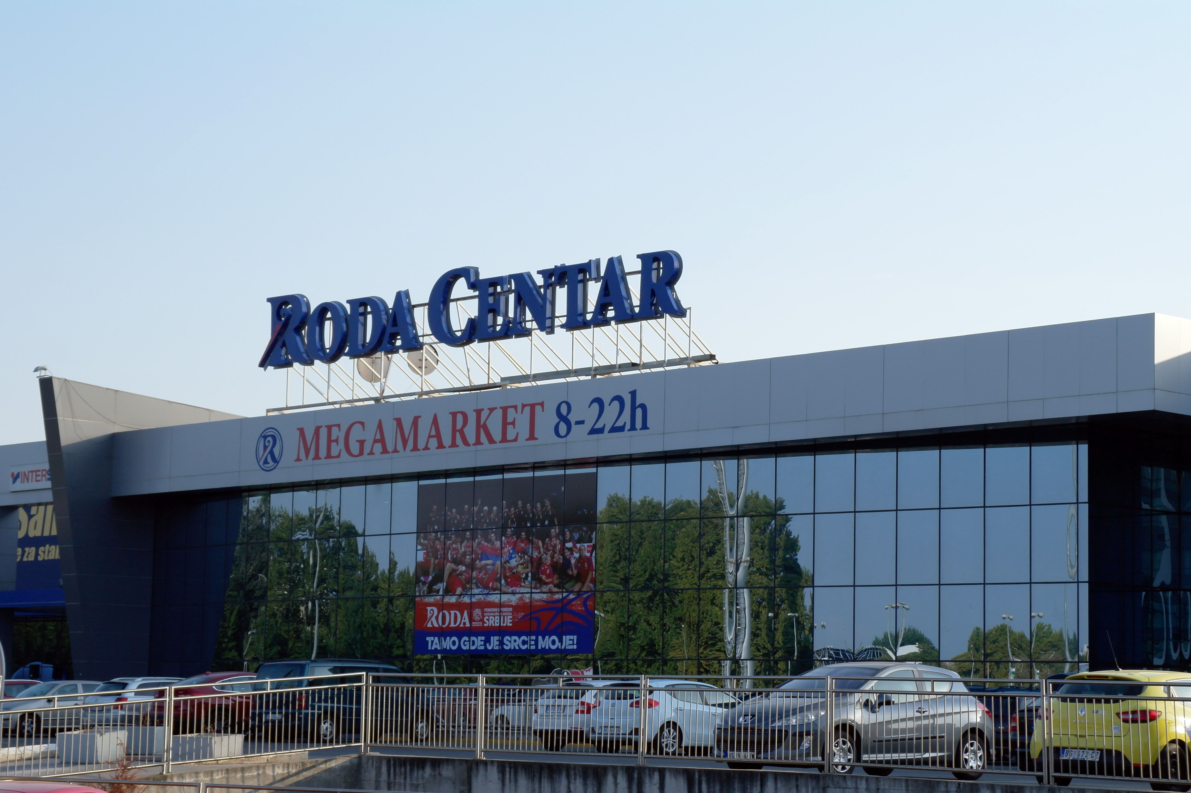 Roda Center in New BelgradeSrpskohrvatski / српскохрватски: Roda Centar na Novom Beogradu